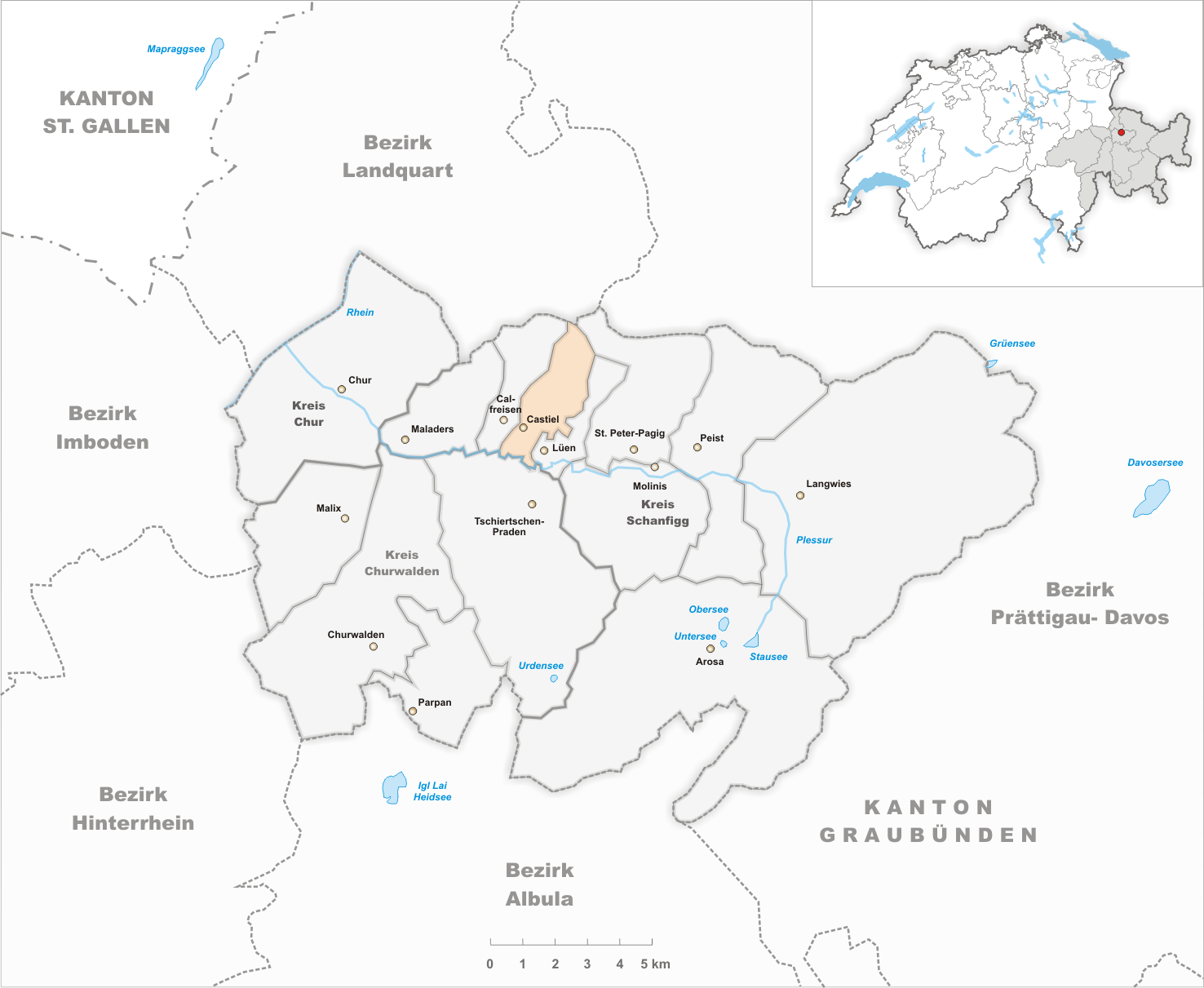 Municipality Castiel